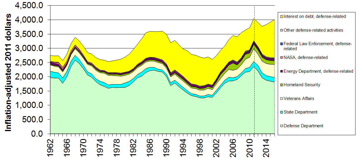 This graph shows the per-capita, inflation-adjusted defense spending of the United States federal government from 1962 to (forecasted) 2014. It is derived from the FY2010 "President's budget" Historical tables (Table 3.2—OUTLAYS BY FUNCTION AND SUBFUNCTION: 1962–2014), adjusted using United States Census population data and forecasts and CPI inflation data.